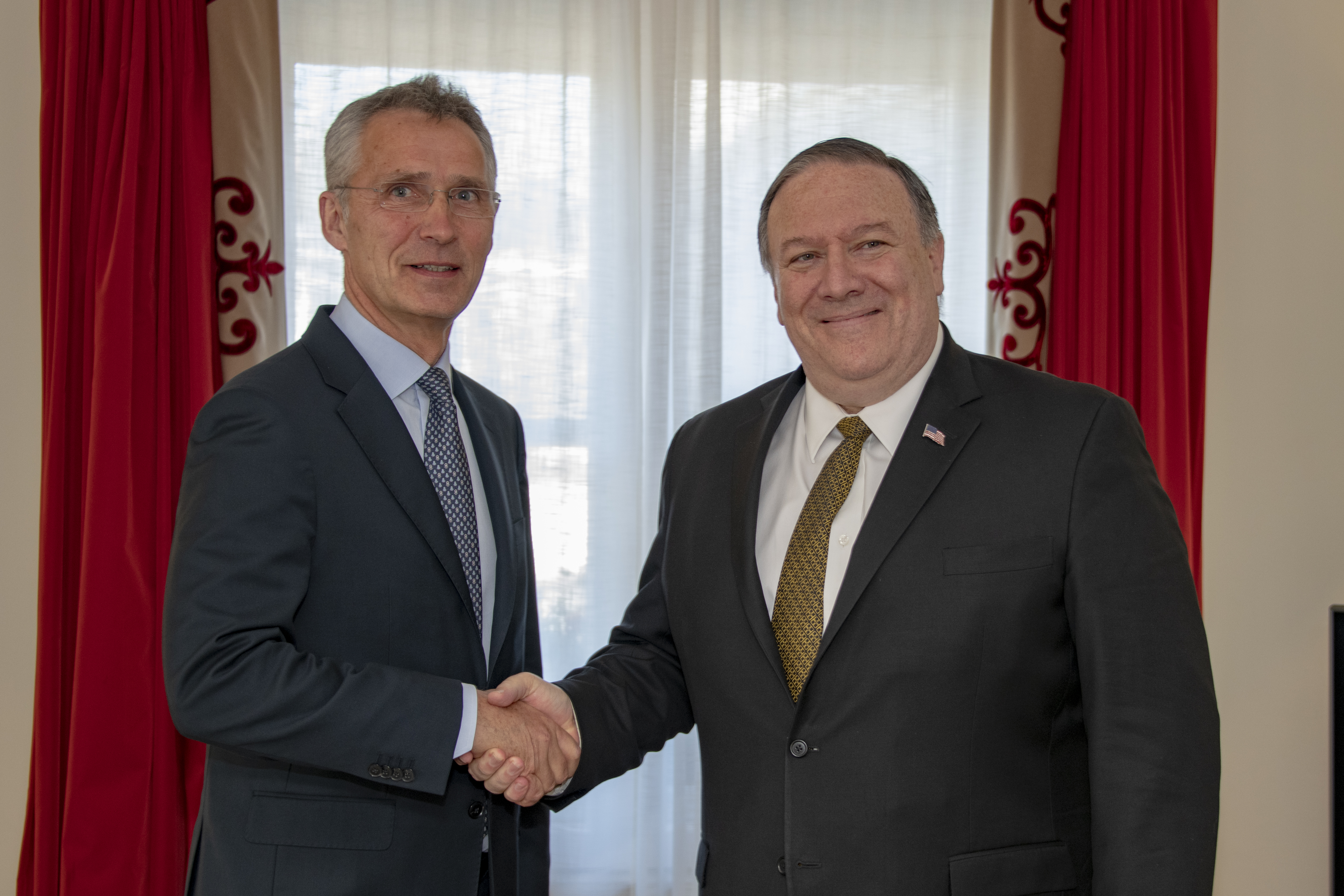 U.S. Secretary of State Michael R. Pompeo meets with NATO Secretary General Jens Stoltenberg and U.S. Ambassador to NATO Kay Bailey Hutchinson in Brussels, Belgium on May 13, 2019. [State Department photo by Ron Przysucha/ Public Domain]